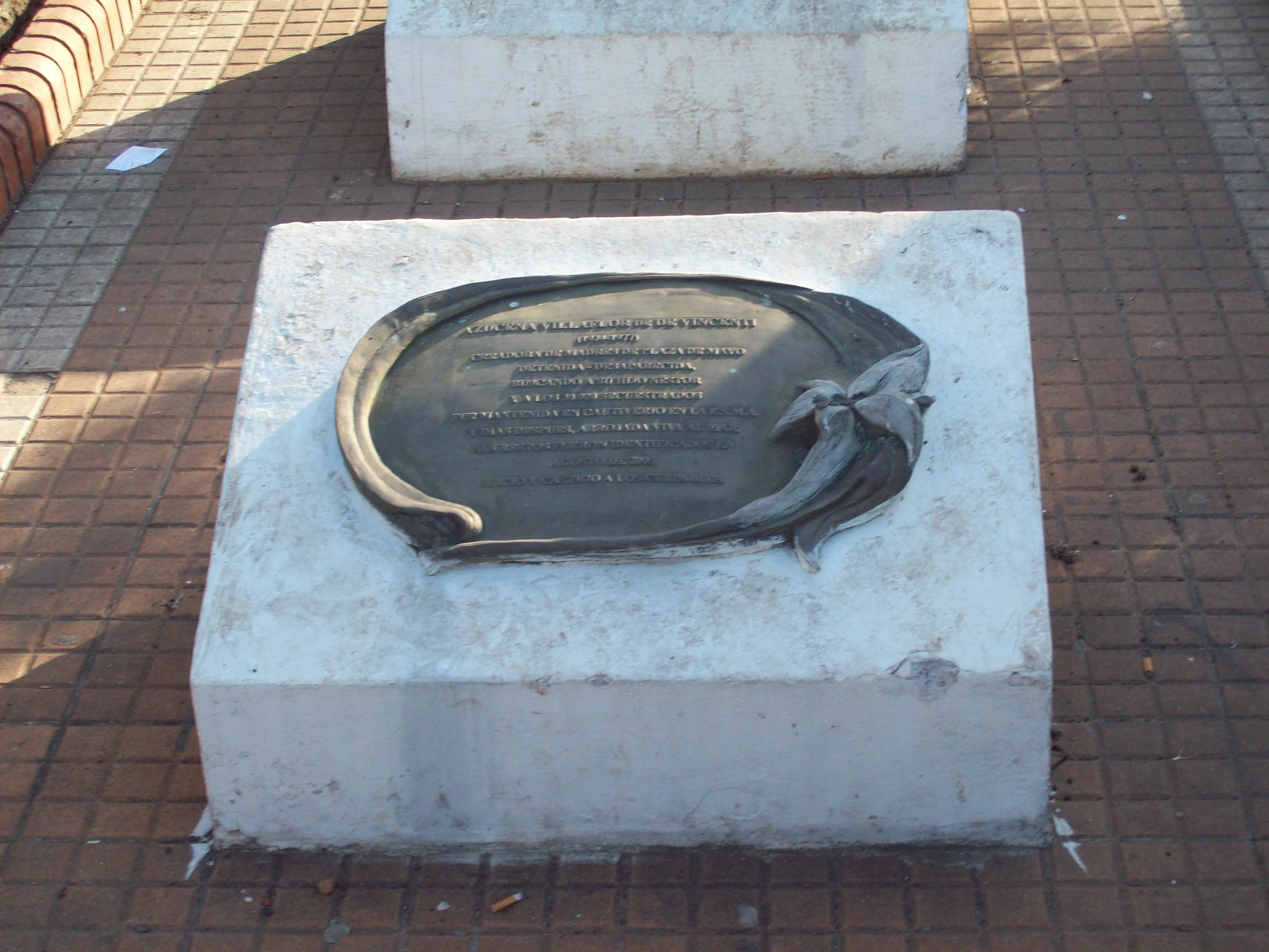 Gravestone of Argentine social activist, Azucena Villaflor